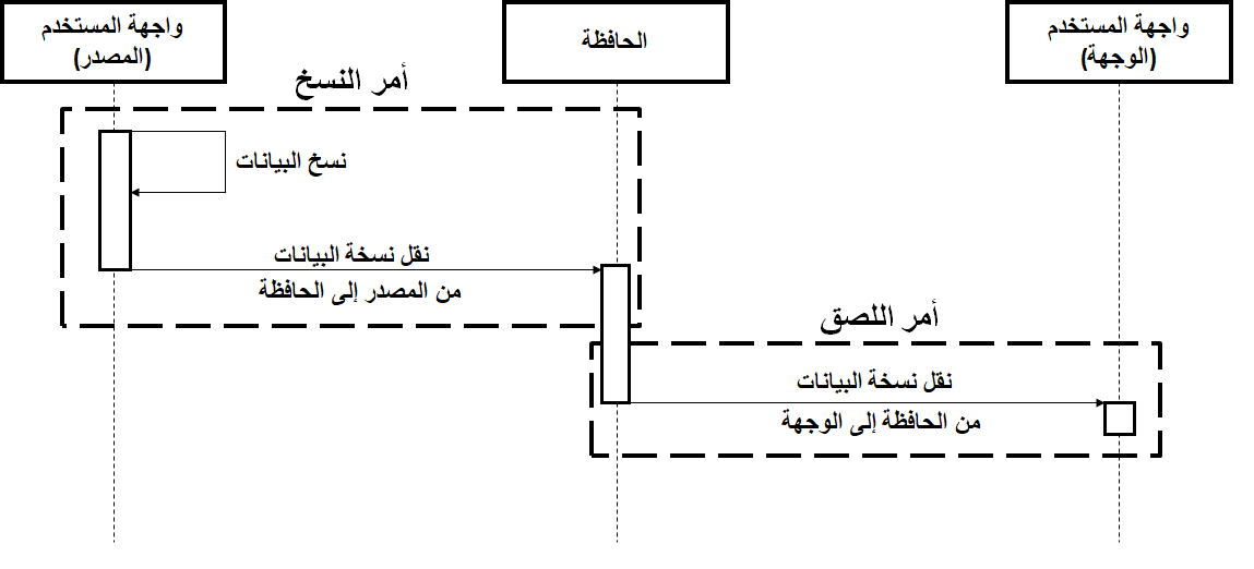 Sequence diagram of the copy-paste operation.